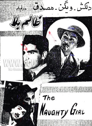 Zalem bala poster - 1956